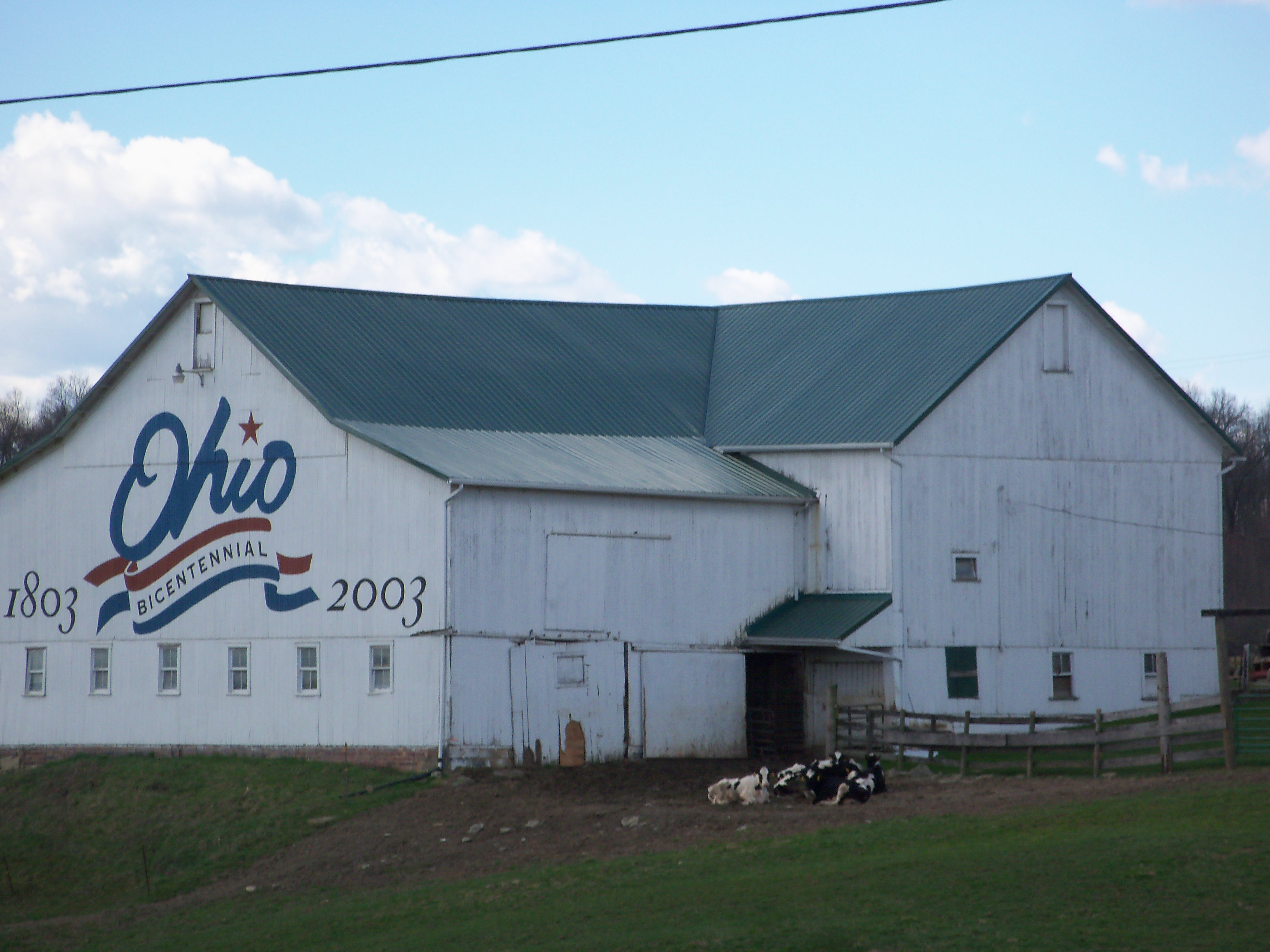 Bicentennial Barn at corner of Ohio State Route 171 and Ohio State Route 43